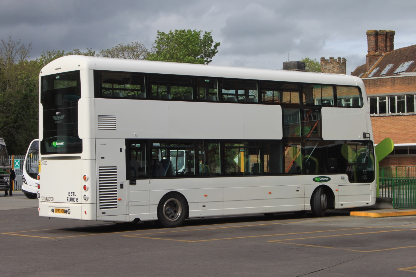 Wright Gemini 3 demonstrator BF63HDC was on loan to The Buses of Somerset in the spring of 2015 and was on display in the bus station during the town's annual vintage bus day.